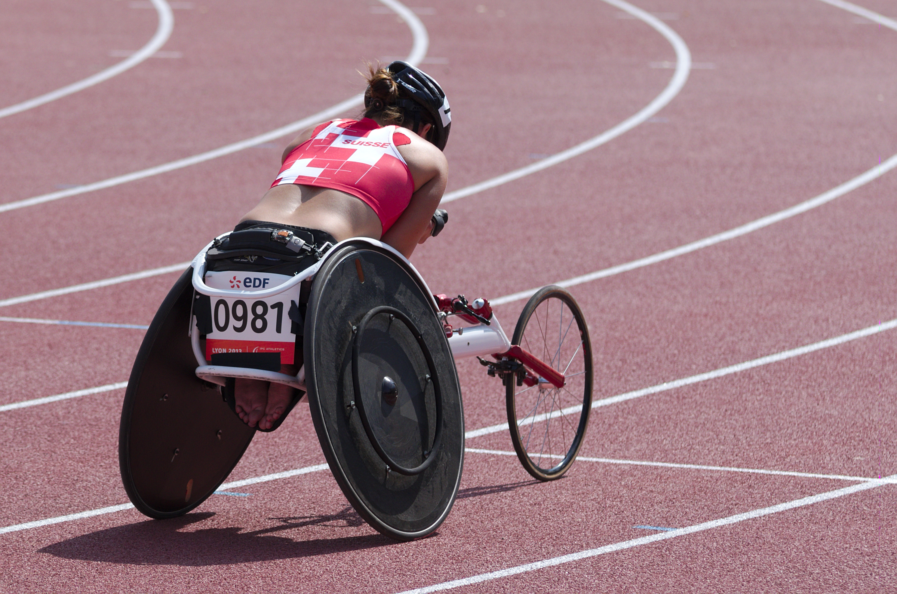 Manuela Schaer of Switzerland during the Women's 400m - T54 first semifinal